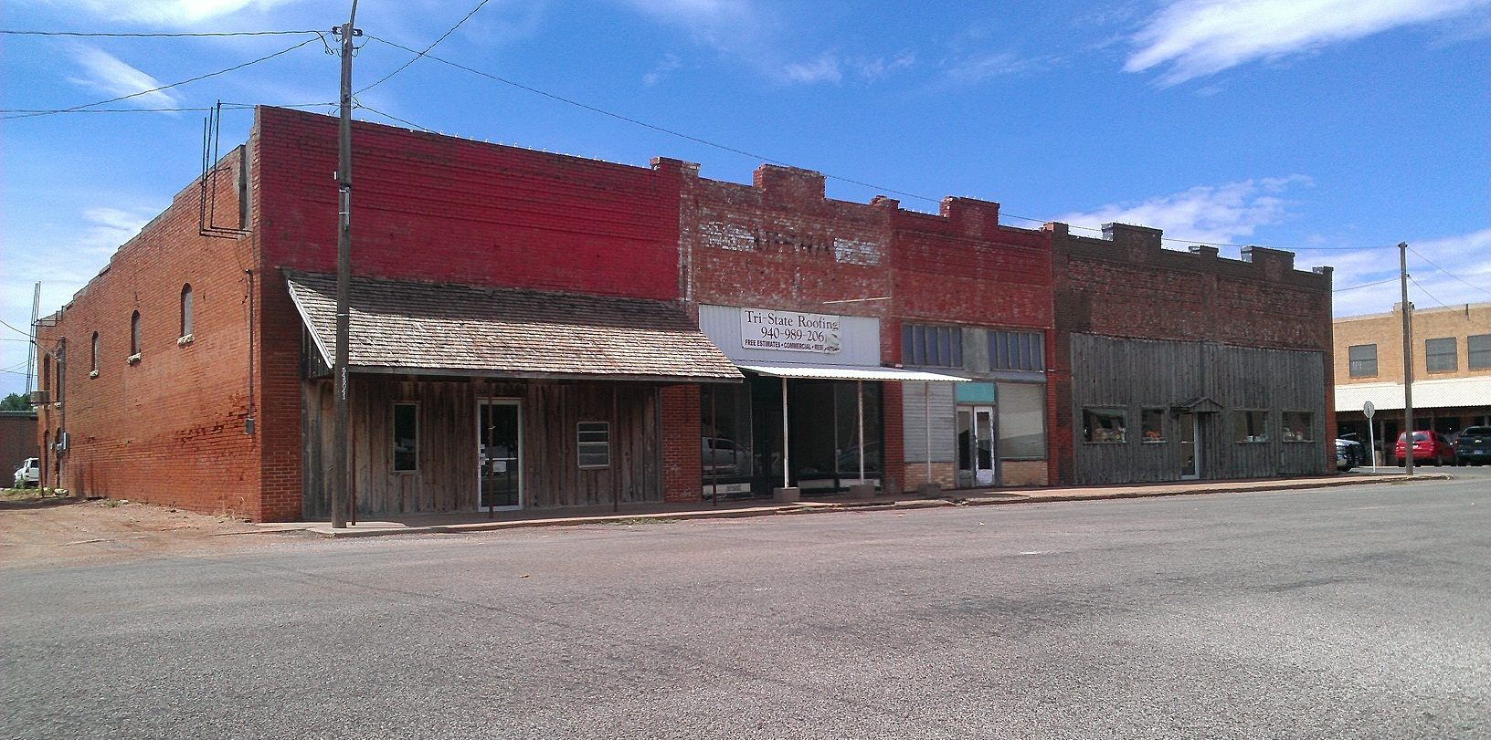 Row of buildings south of the Stonewall County Courthouse in Aspermont, Texas